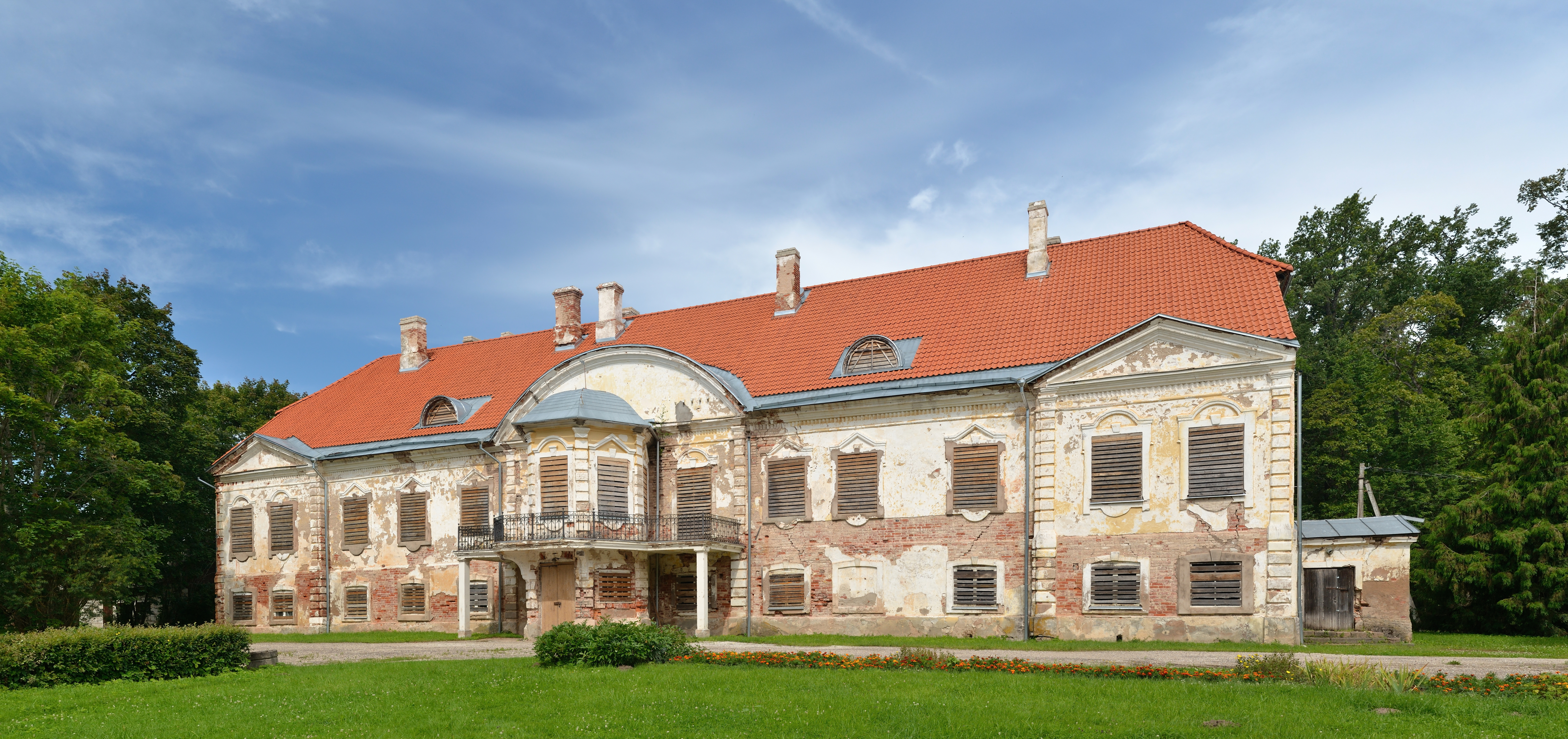 Ahja manor main building